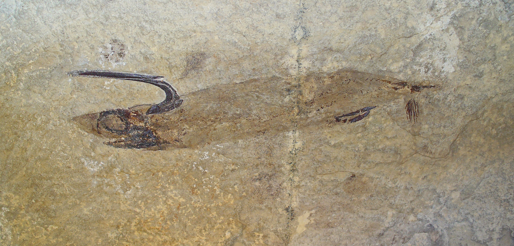 Falcatus falcatus, Falcatidae, Lower Carboniferous, Montana, USA; Staatliches Museum für Naturkunde Karlsruhe, Germany.